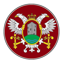 Coat of arms of Valjevo